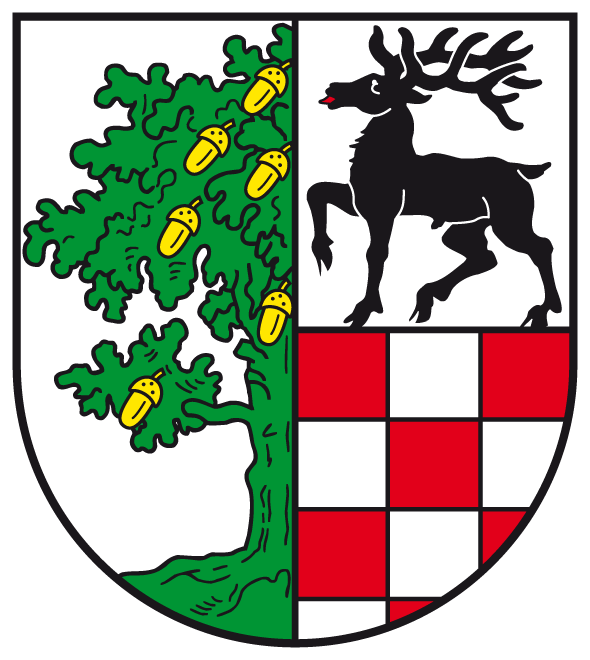 Coat of arms of Bad Sachsa